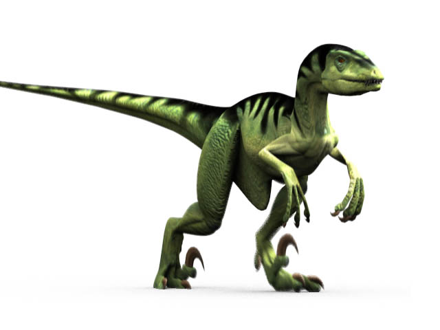 Deinonychus